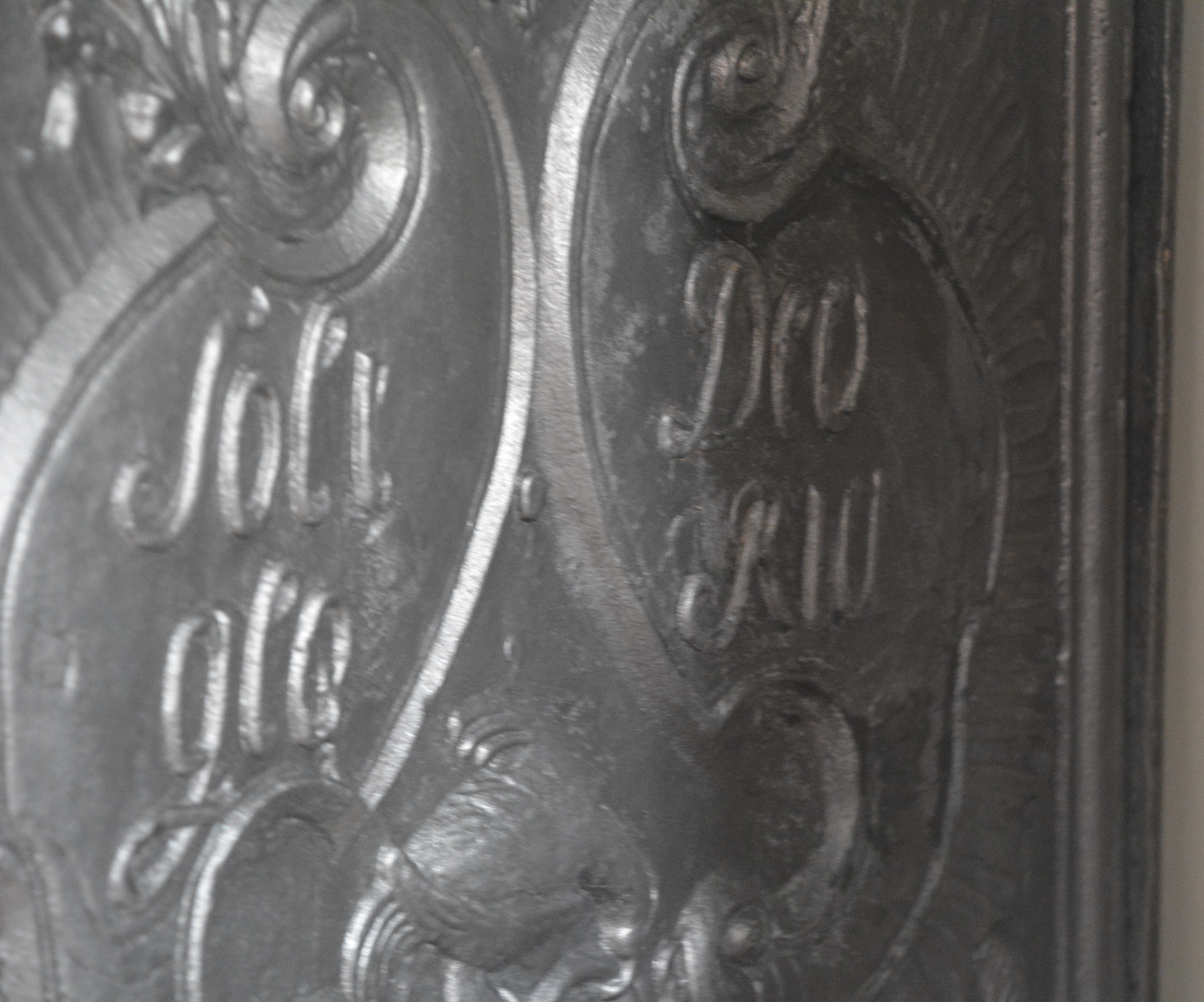 Norwegian 19th Century cast iron stove, with inscription Soli Deo Gloria. Ship's Agent House Museum, Helsingör, Denmark.